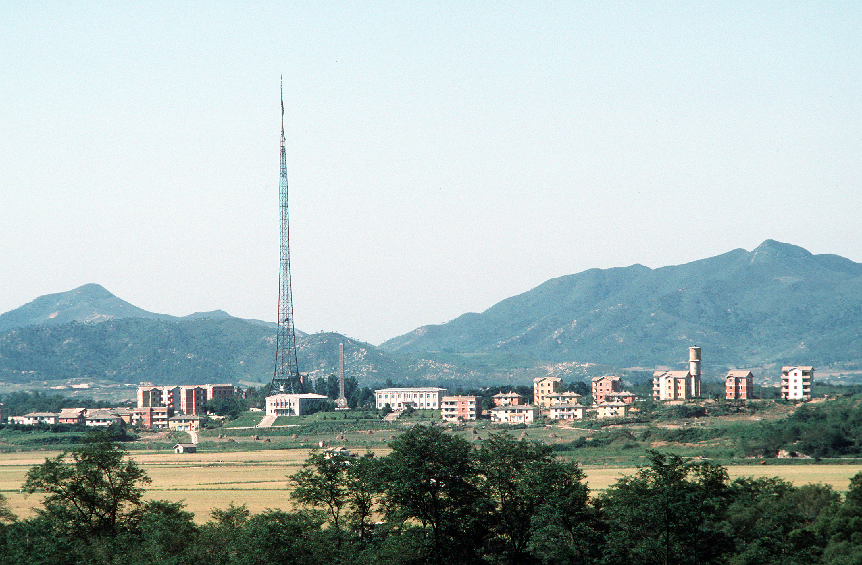 A view of the North Korean village Kijong-dong, also known as "propaganda village".